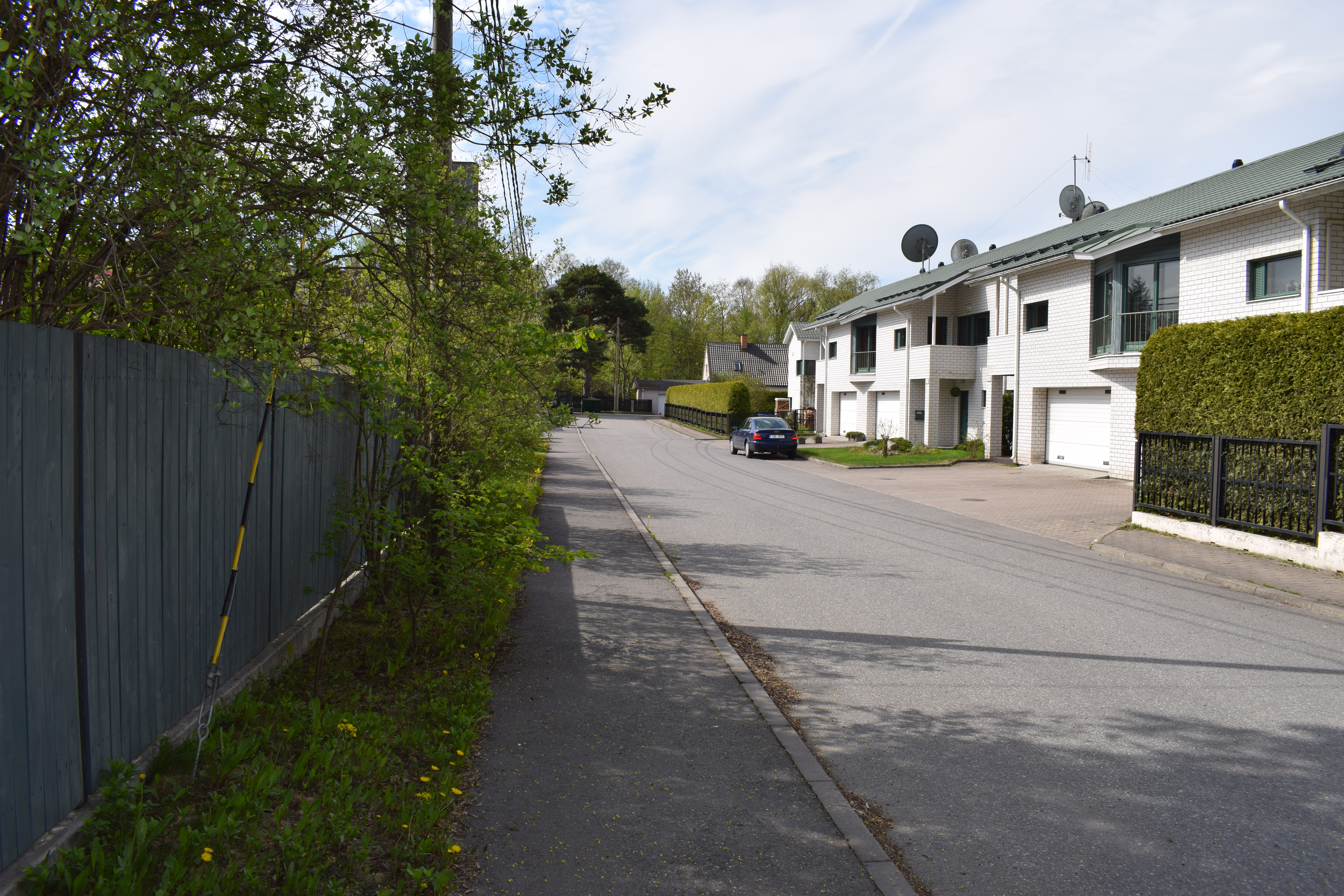 Hiie Street